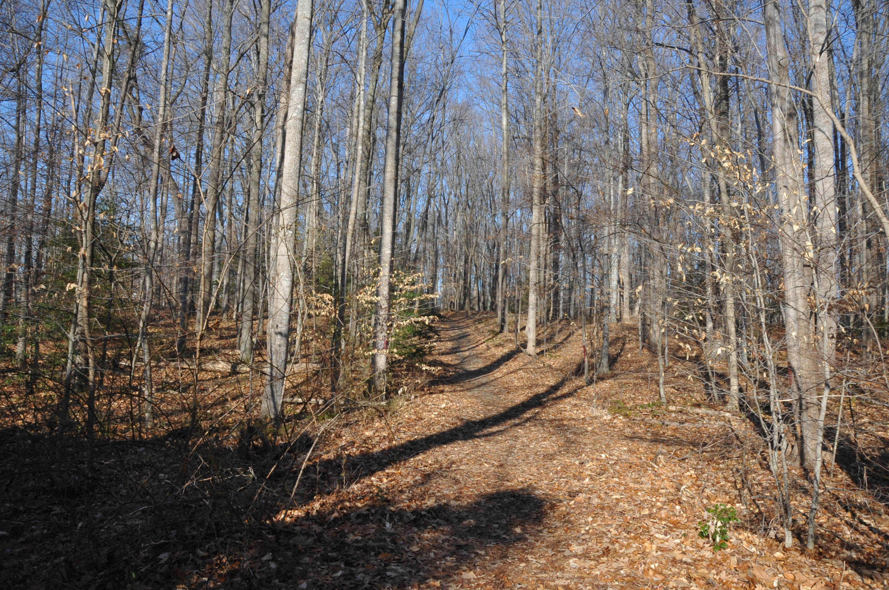 AKA CAMP CARONDELET; SITE OF A GRAND BALL IN FEBRUARY 1862; LOUISIANA BRIGADE BUILT LOGM CABINS AND LATER BURNED THEM. THIS VIEW IS TAKEN AT THE SITE OF THE CAMP